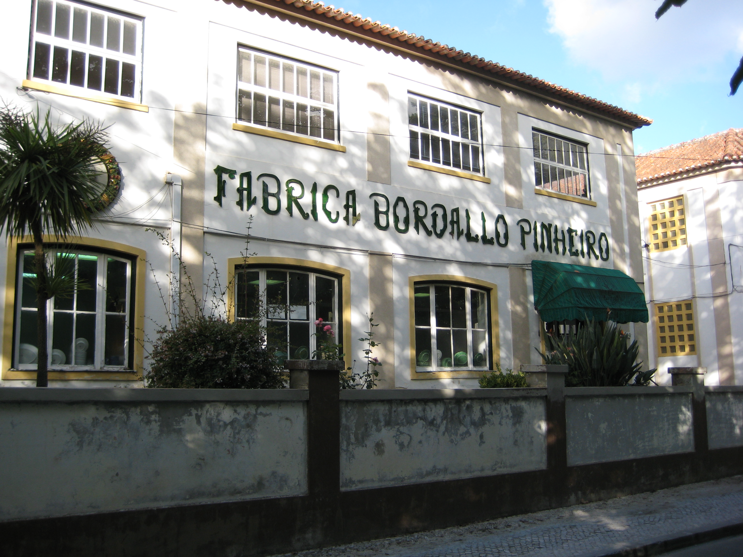 Photo of the Bordallo Pinheiro ceramics factory in Caldas da Rainha taken by me June 21 2007